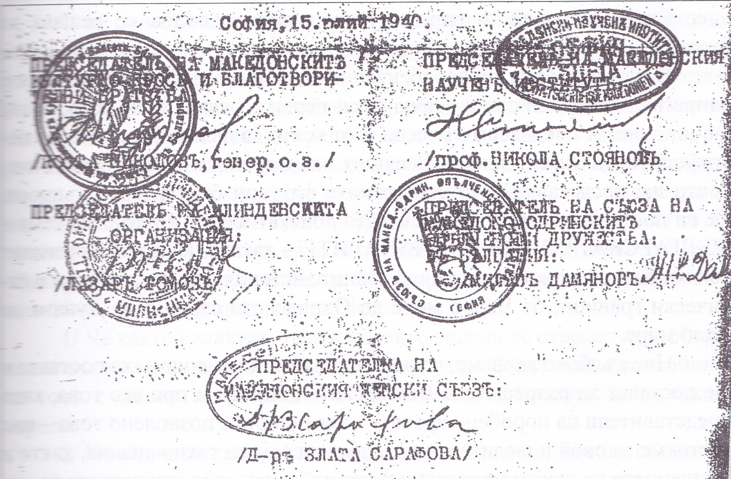 End of declaration with the signs